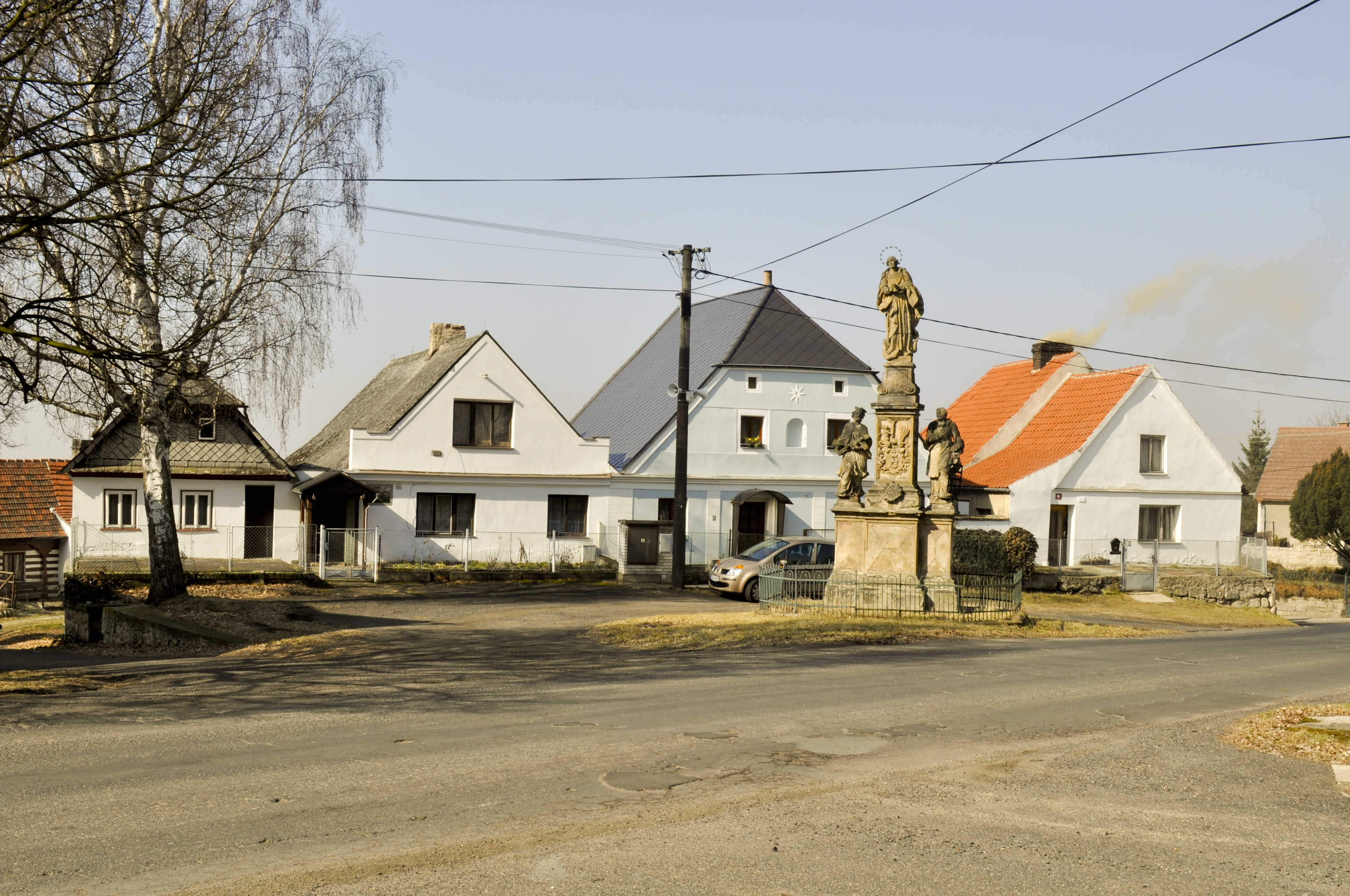 Village green, Chcebuz, Ústí nad Labem Region